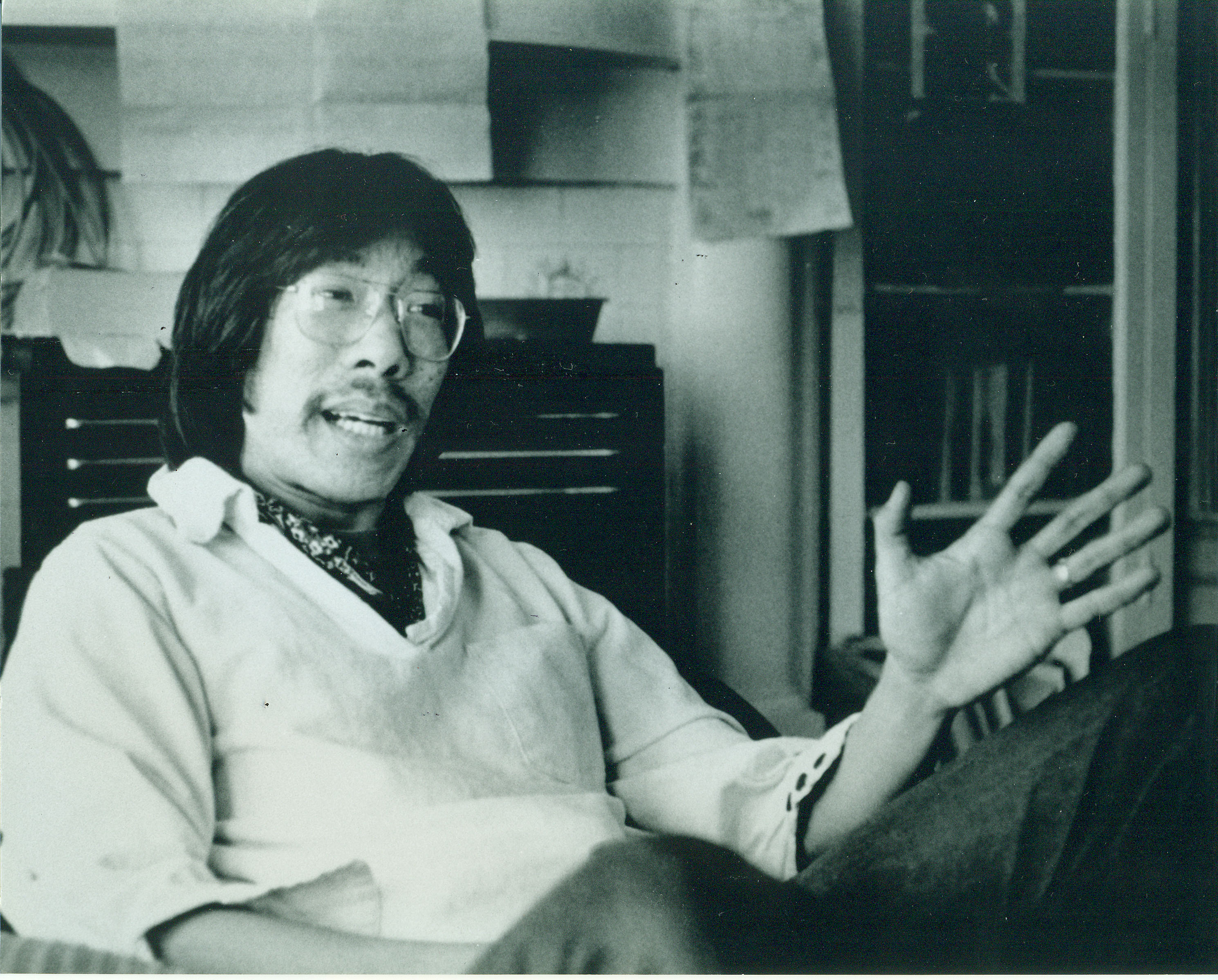 Playwright and novelist Frank Chin in San Francisco, California, 1975. Photograph by Nancy Wong